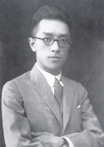 Hu Shih